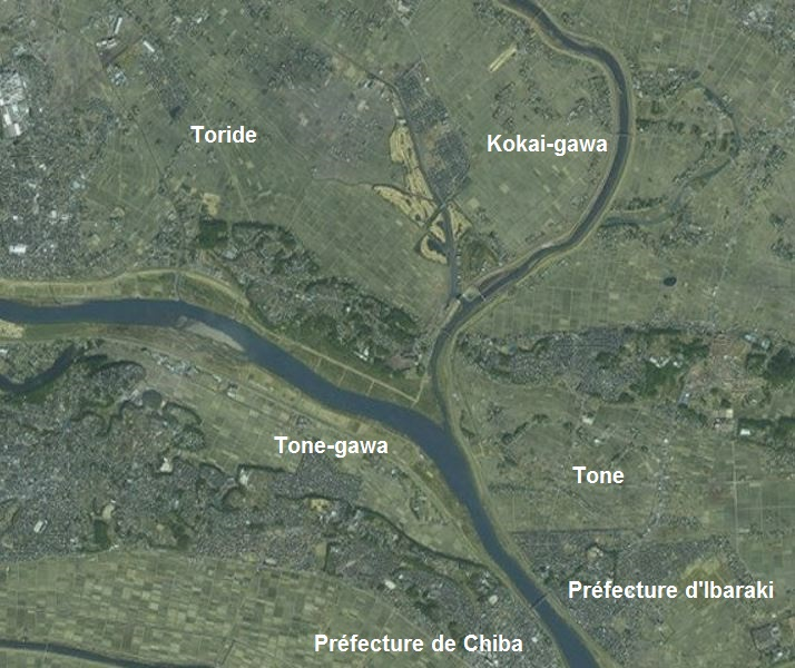 Japan: aerial view of the confluence point of the Kokai and Tone river in Toride (Ibaraki prefecture).